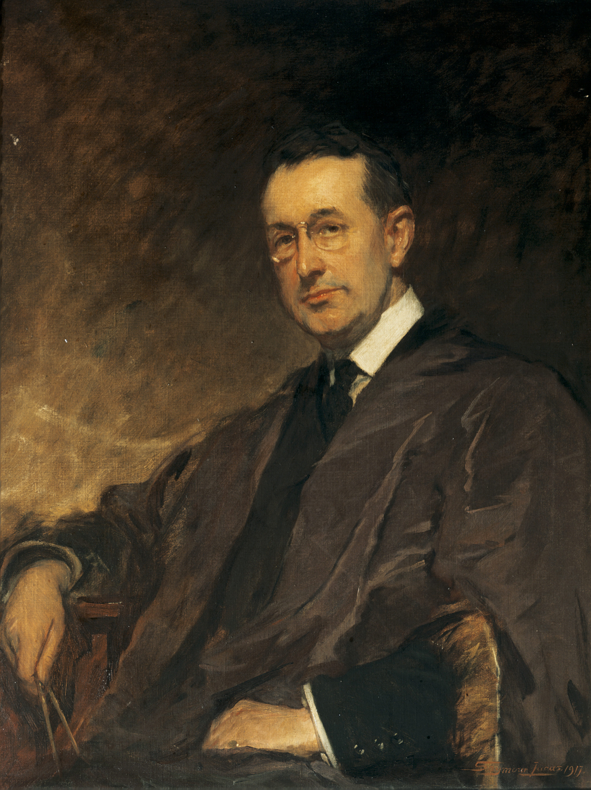 Lucas, John Seymour; Sir Banister Fletcher, FSA; The Royal Institute of British Architects